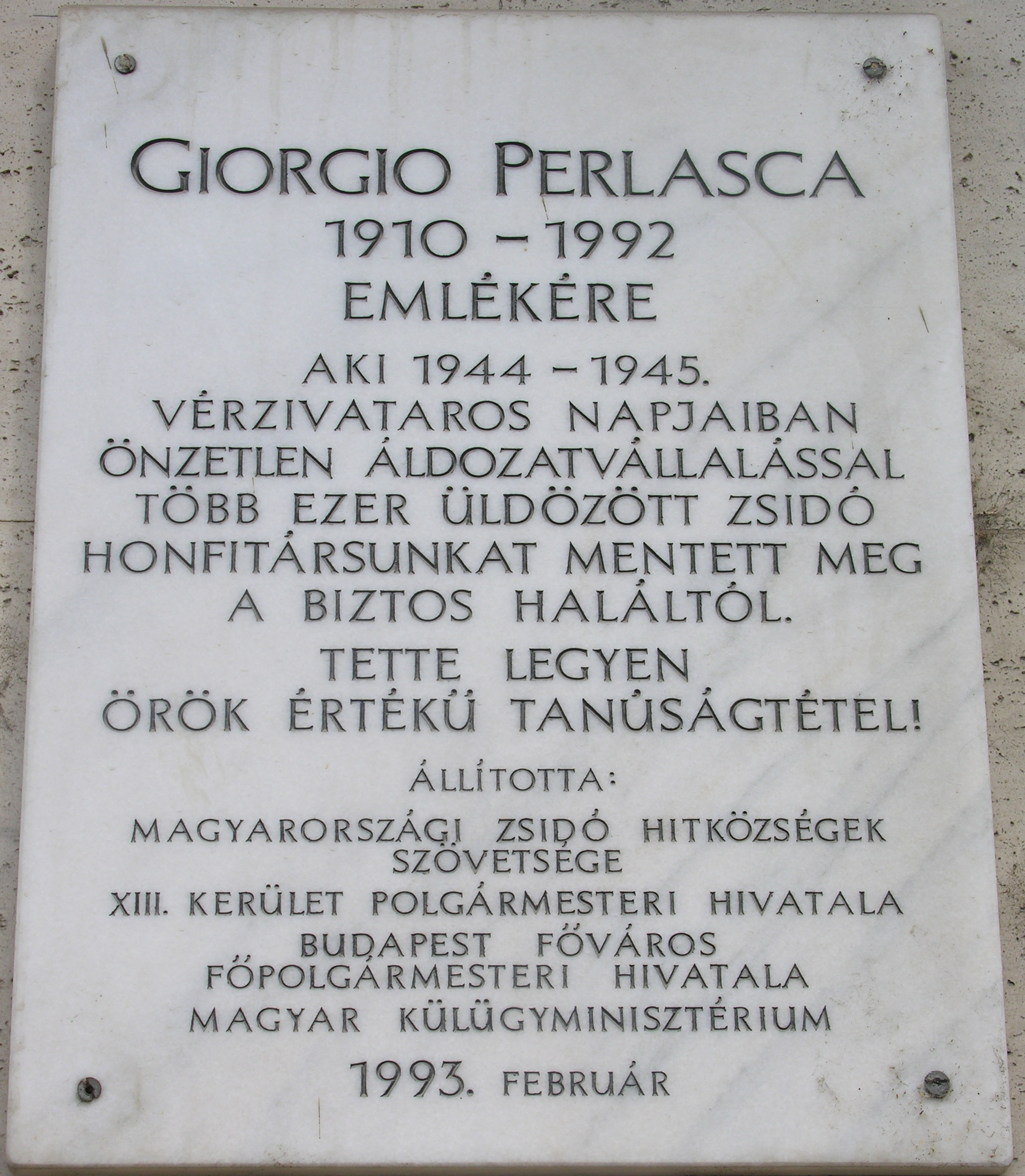 Commemorative plaque of Giorgio Perlasca in Budapest District XIII, Szent István Park No 35